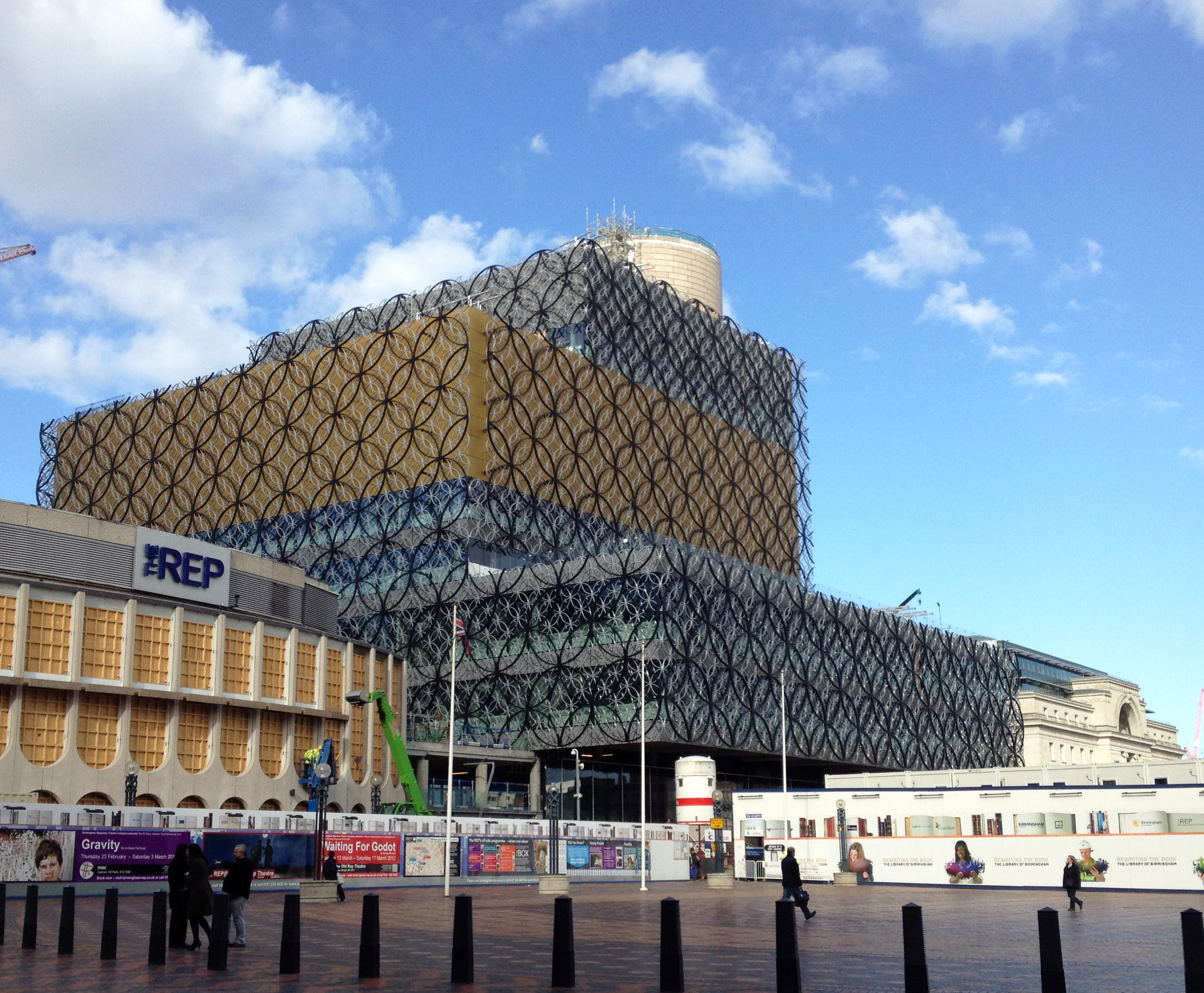 The Library of Birmingham under construction in March 2012.